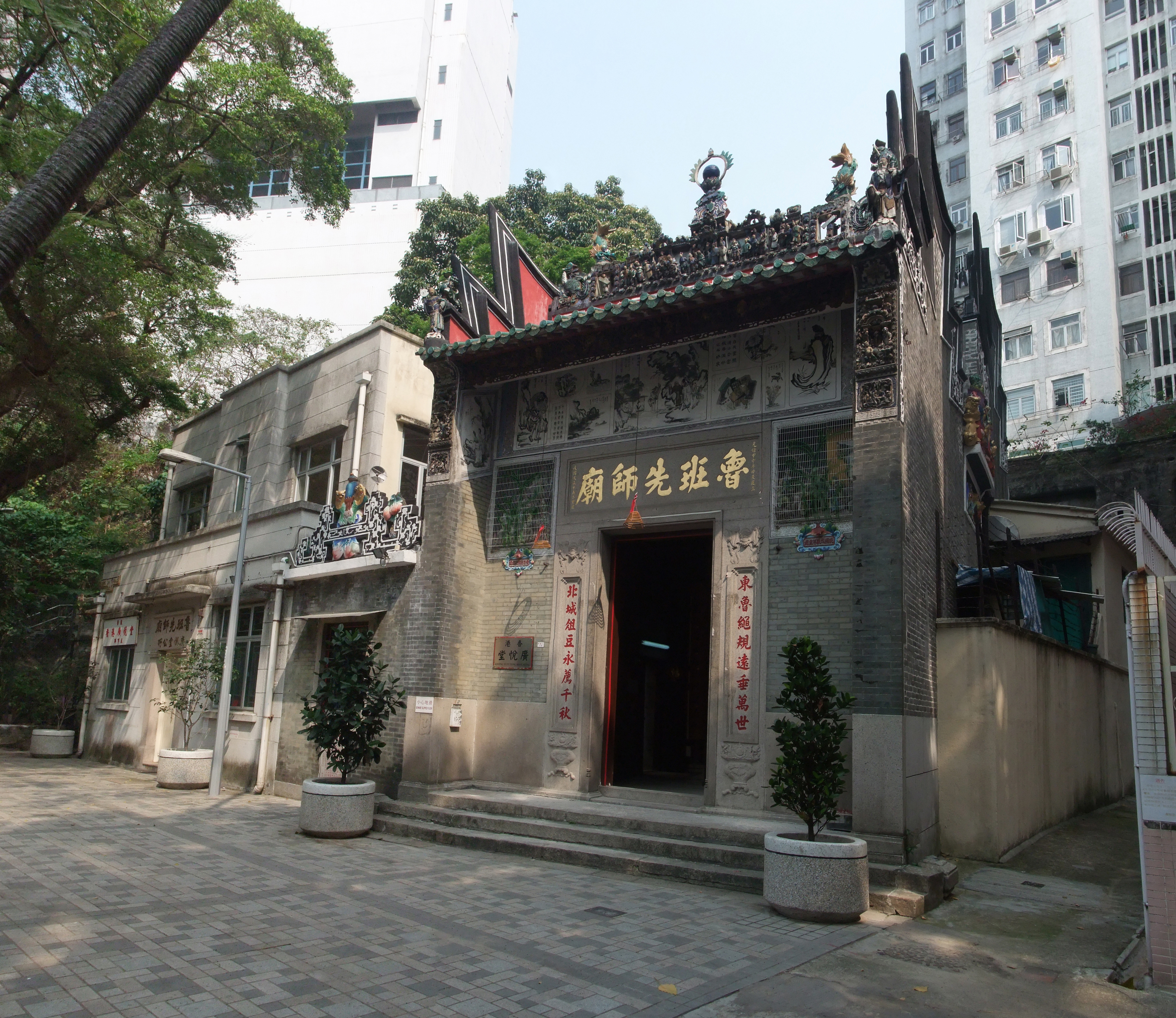 Panoramic photo of Lo Pan Temple, combined from 3413560655, 3414375650, 3414379216, 3413576525, 3414386208 and 3414389590